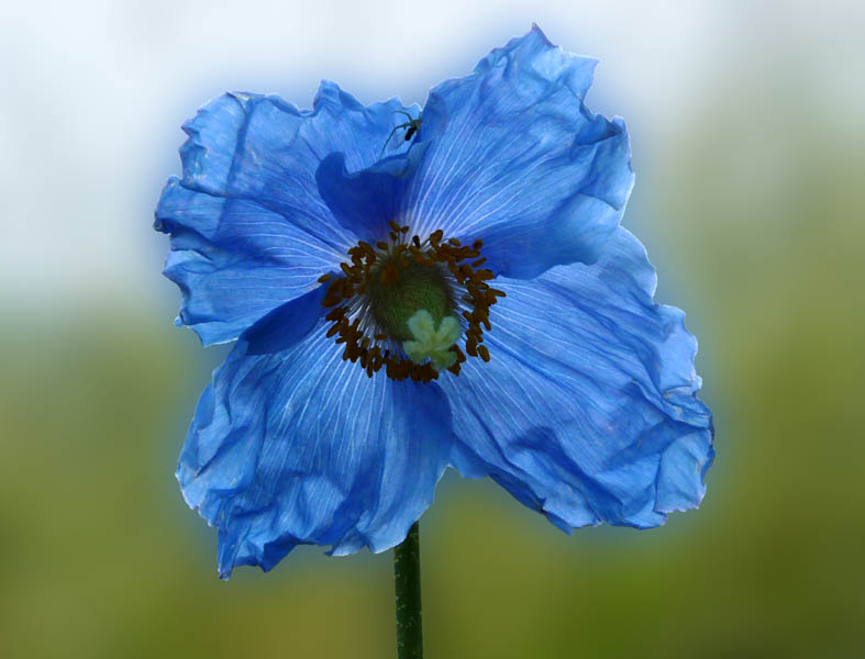 Meconopsis betonicifolia